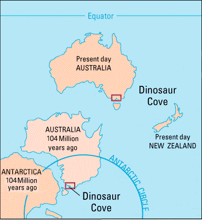 USGS map of Dinosaur Cove